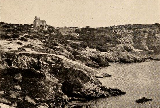 Photograph of Isle Roubaud in the Mediterranean.